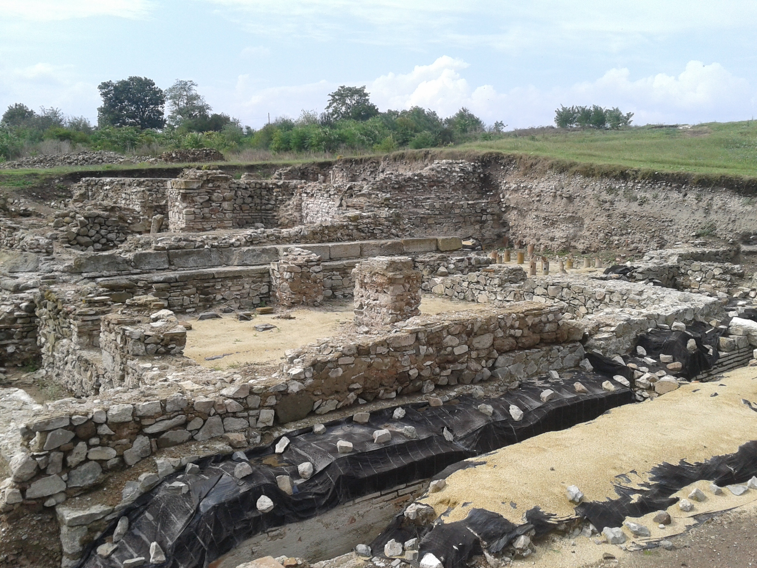 Roman town of Deultum, village of Debelt, Sredets Municipality, Burgas Province, Bulgaria